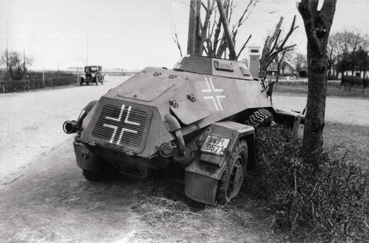 A Leichter Panzerspähwagen Sd. Kfz. 221 lies knocked out in Bredevad on April 9th, 1940